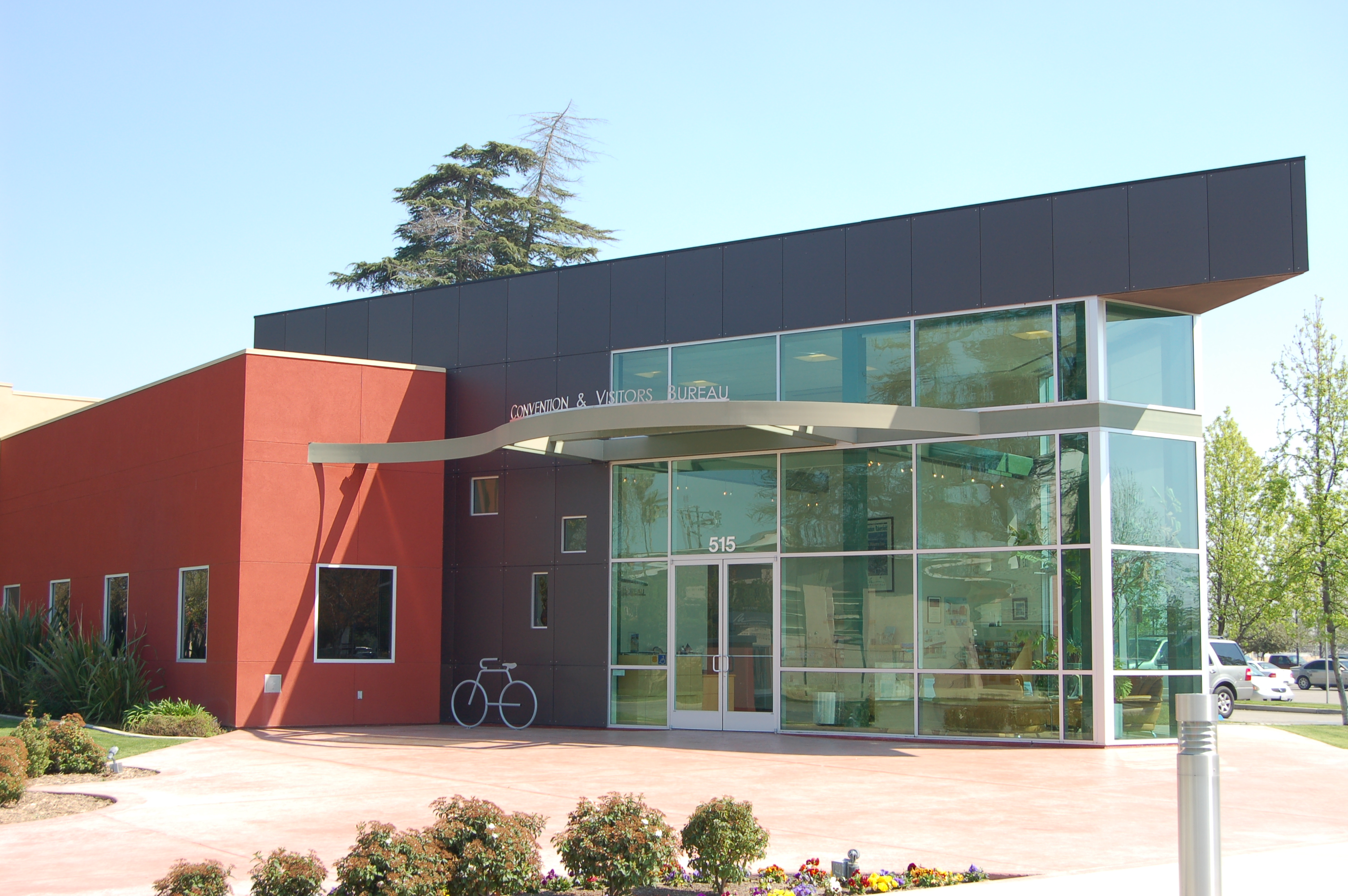 Bakersfield Convention and Visitors Bureau front.